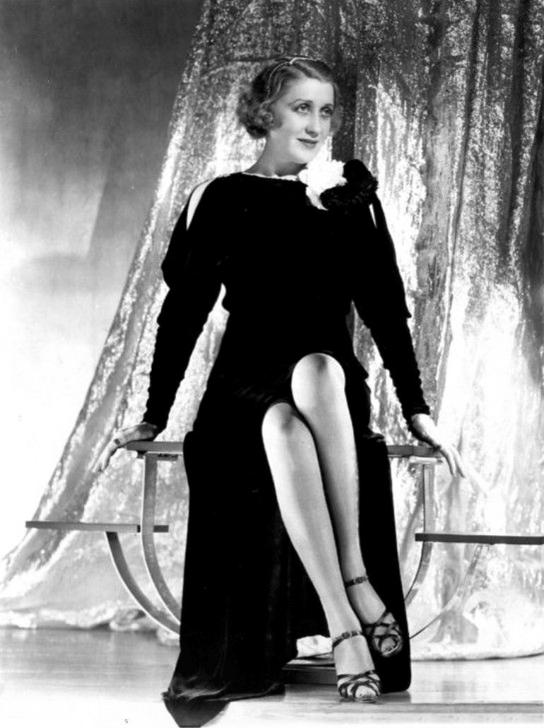 Photo of Ruth Etting from her Oldsmobile-sponsored CBS radio program in 1934. Photo uploaded is an unwatermarked copy. There are no copyright marks on the photo-uncropped front & back at links above.